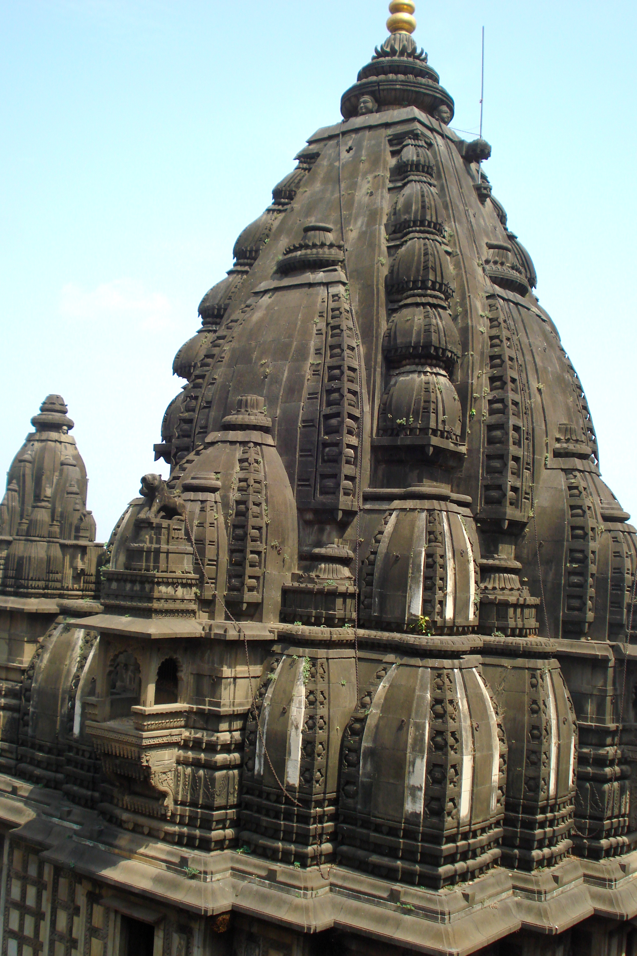 Ahilya bai 1